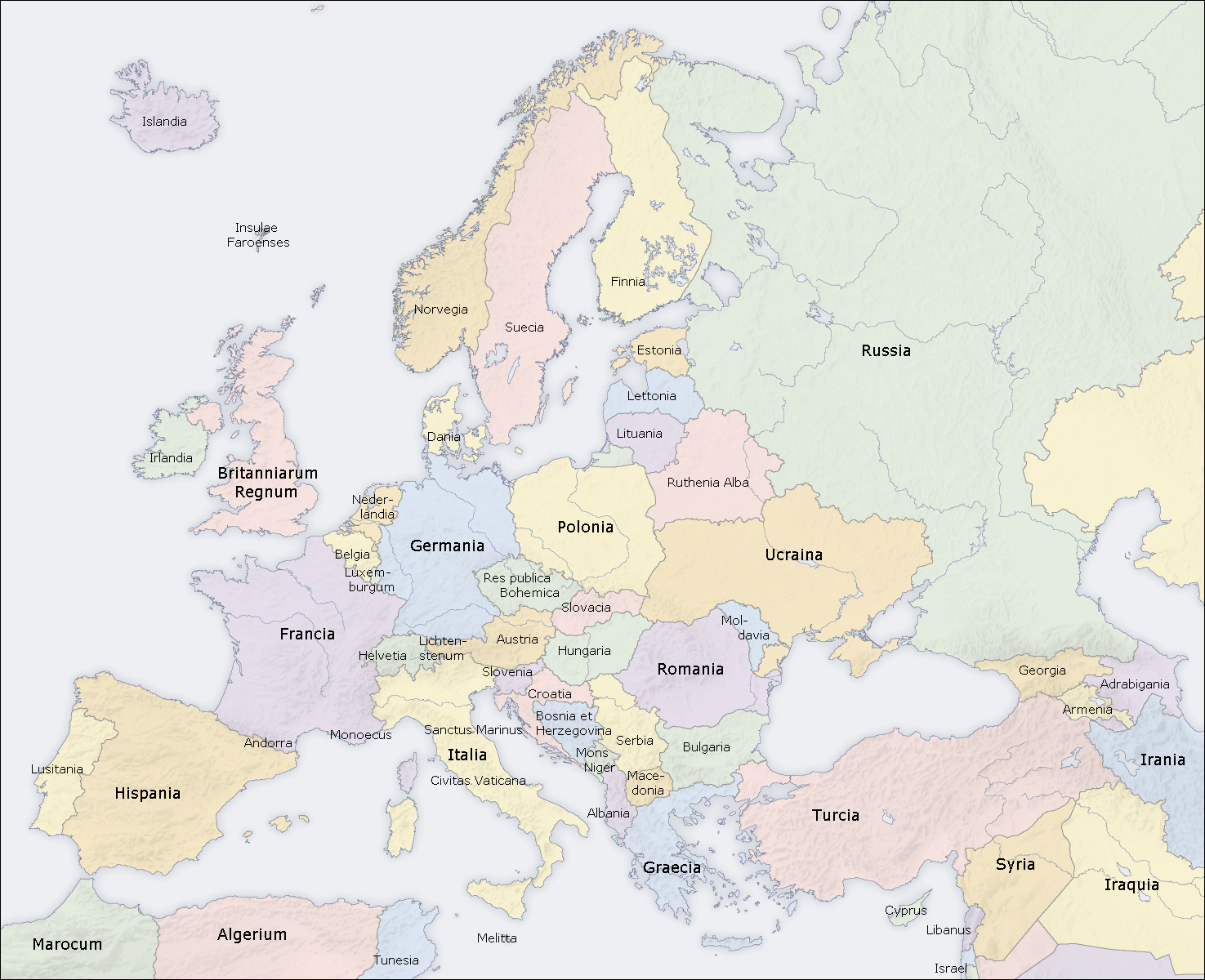 Map of countries in Europe